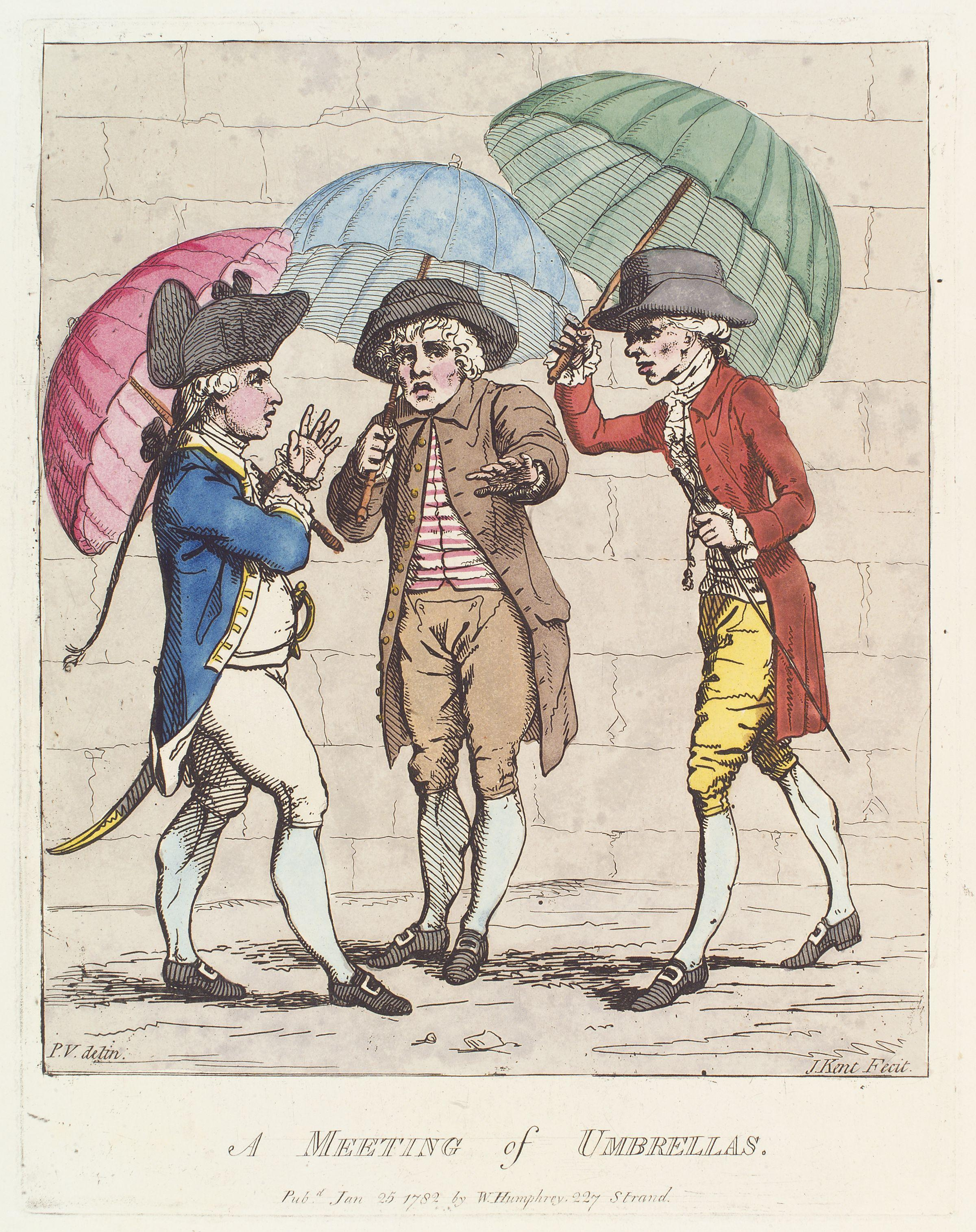 At that time, the sight of an able-bodied adult male carrying an umbrella for himself in an English city or town hadn't entirely shed the connotations of excessive dandyism or effeminacy which it had earlier in the eighteenth century... All images in this batch have been confirmed as author died before 1939 according to the official death date listed by the NPG.